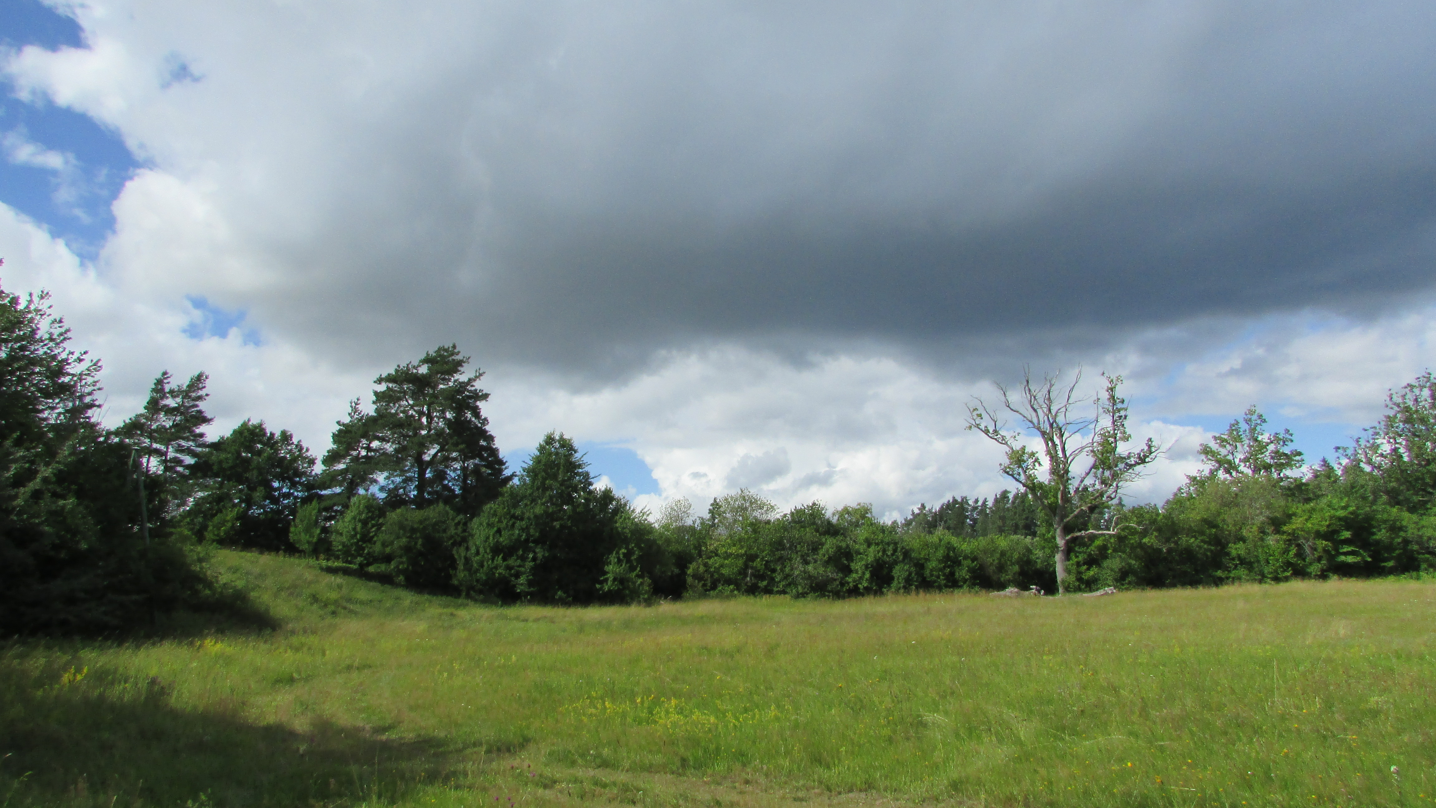 Curonian hillfort of Veckuldiga, now in Kuldiga, Latvia